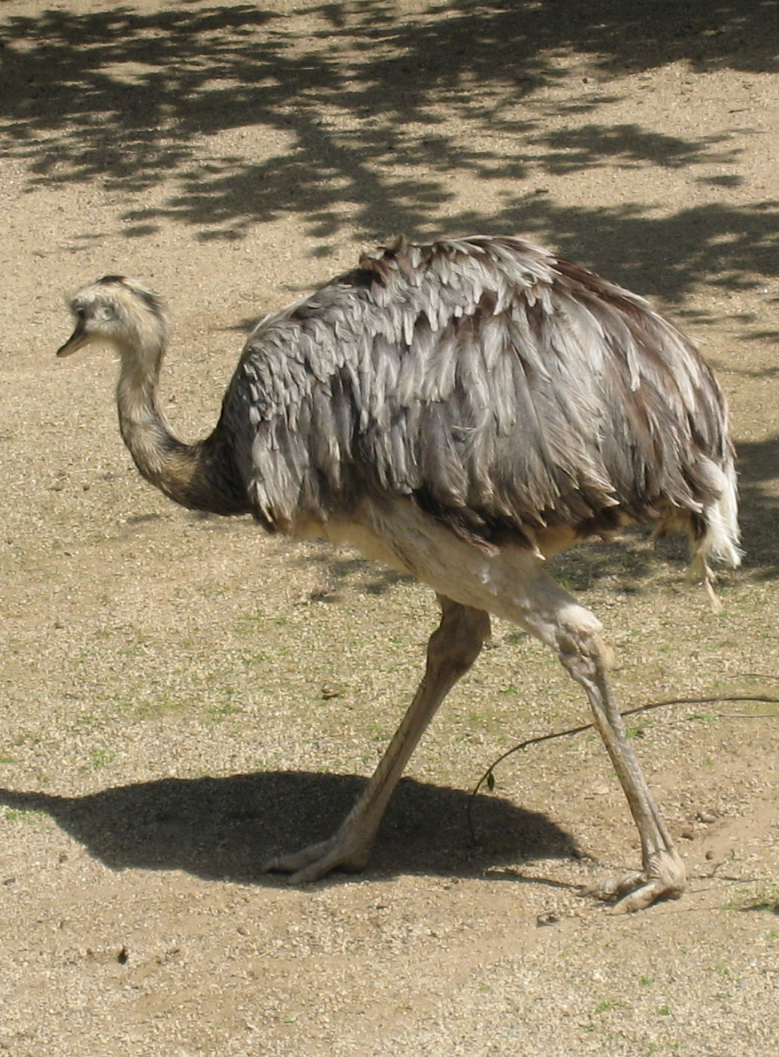 Nandu in Dortmund Zoo.